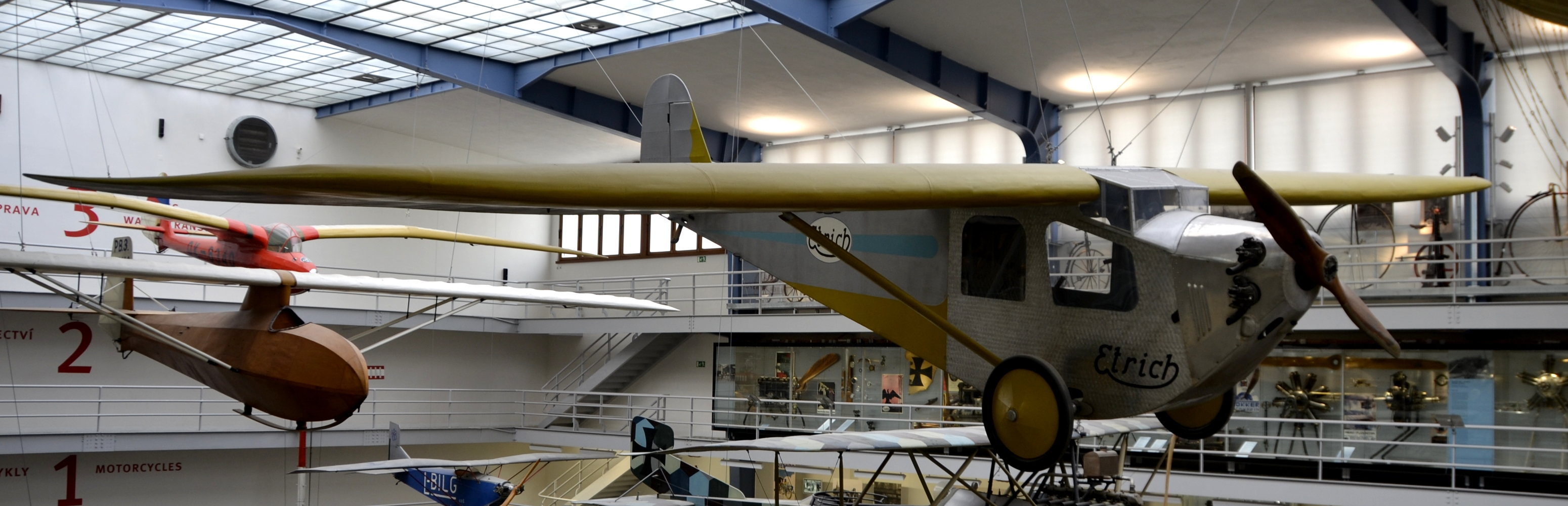 The Etrich Sport-Taube from 1929 in the National Technical Museum in Prague.